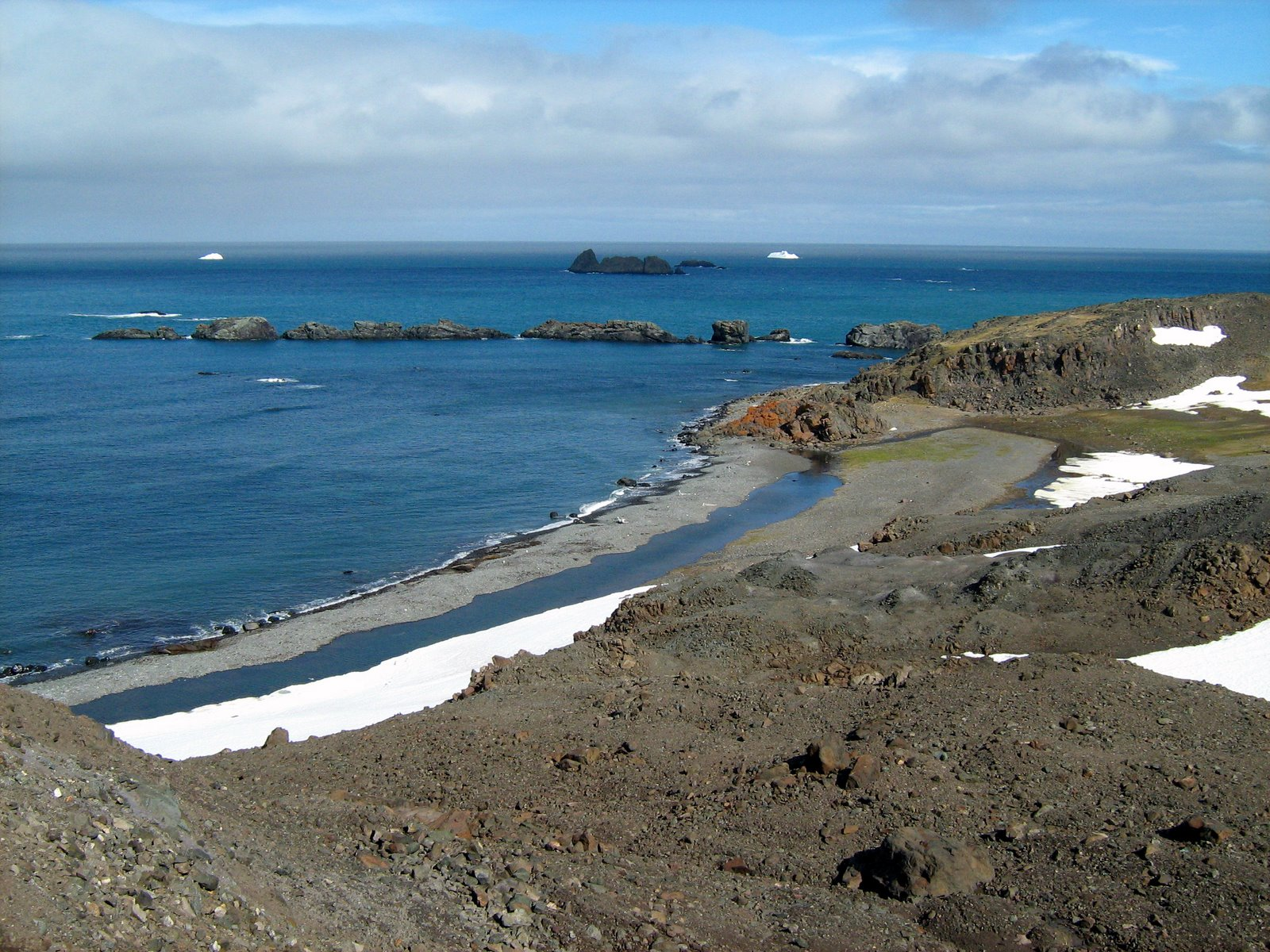 Cape Blue Dyke, King George Island